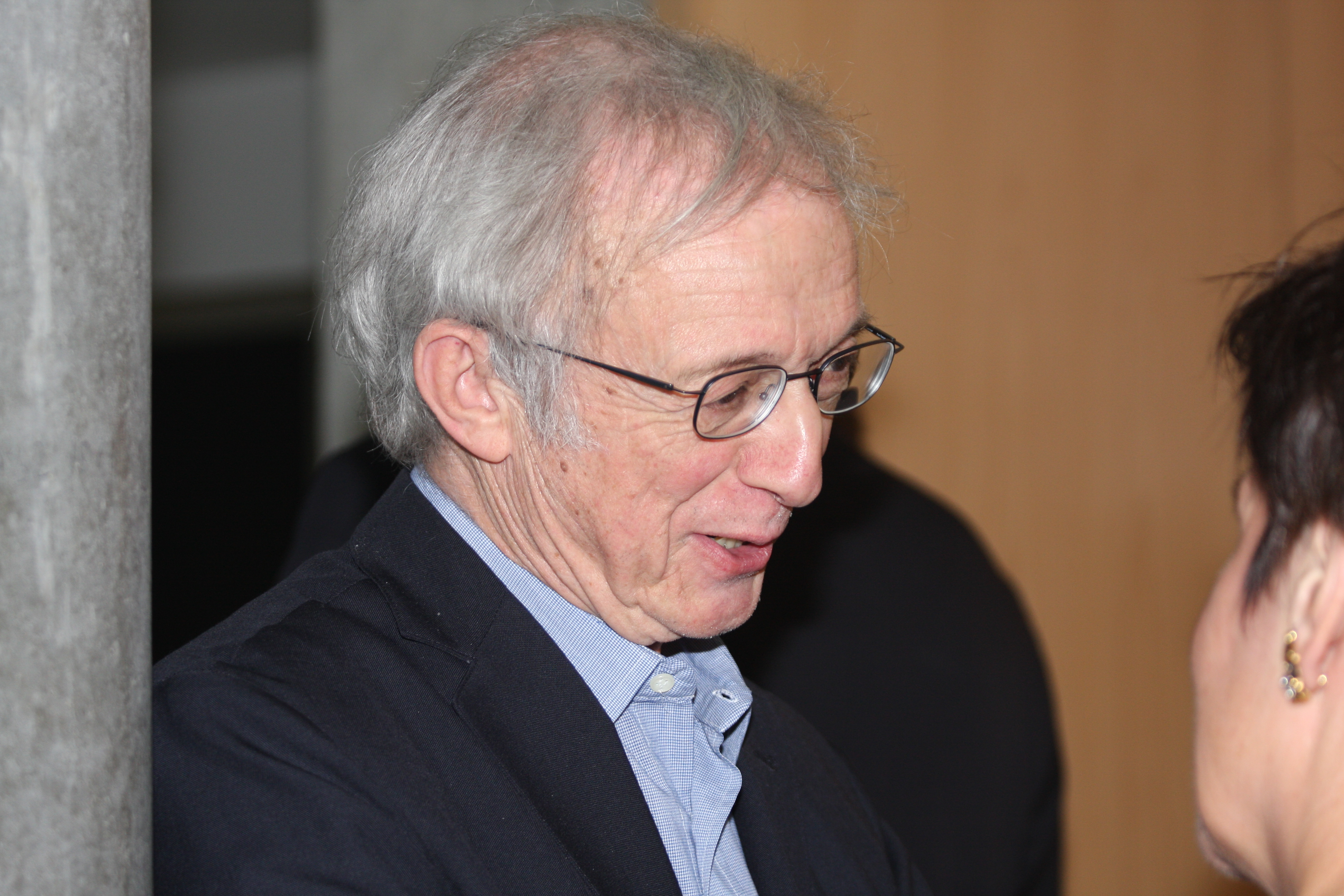 Professor Jürg P. Rosenbusch